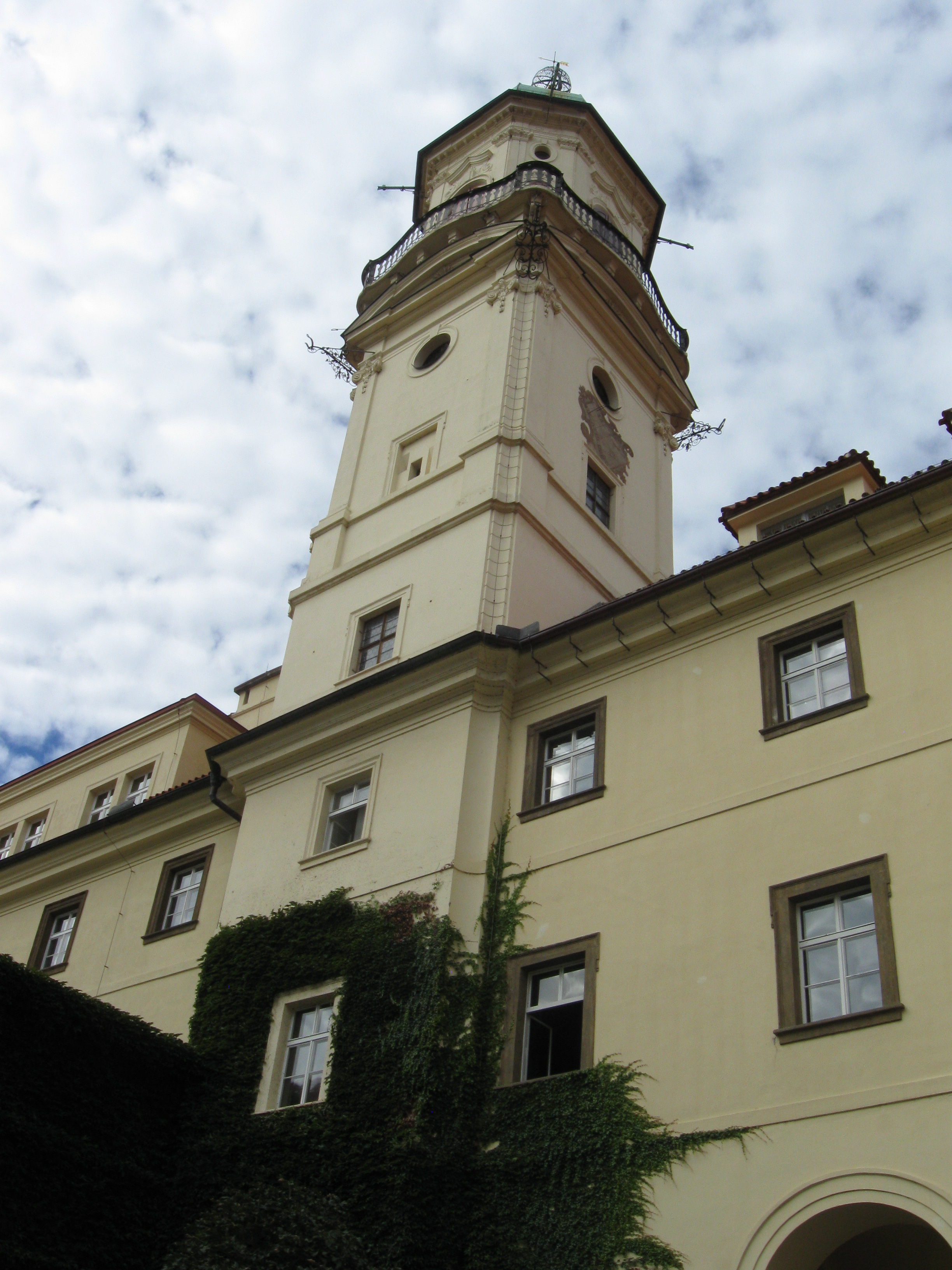 Klementinum, Prague